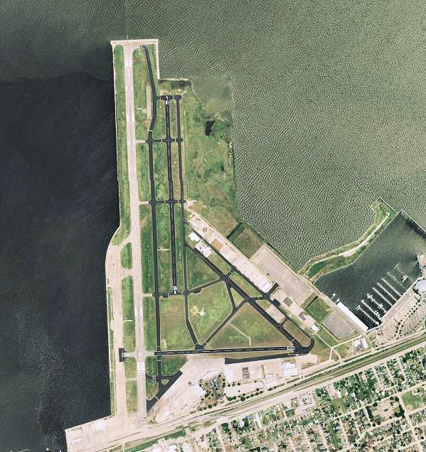 USGS digital orthophoto of New Orleans Lakefront Airport in Louisiana